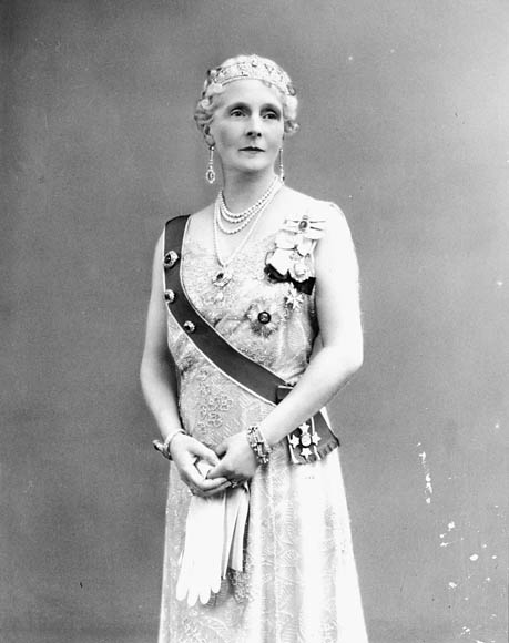 Princess Alice, Countess of Athlone, VA, GCStJ, GCVO, GBE (Alice Mary Victoria Augusta Pauline; née Princess Alice of Albany; 25 February 1883 – 3 January 1981) - As Viceregal consort of Canada